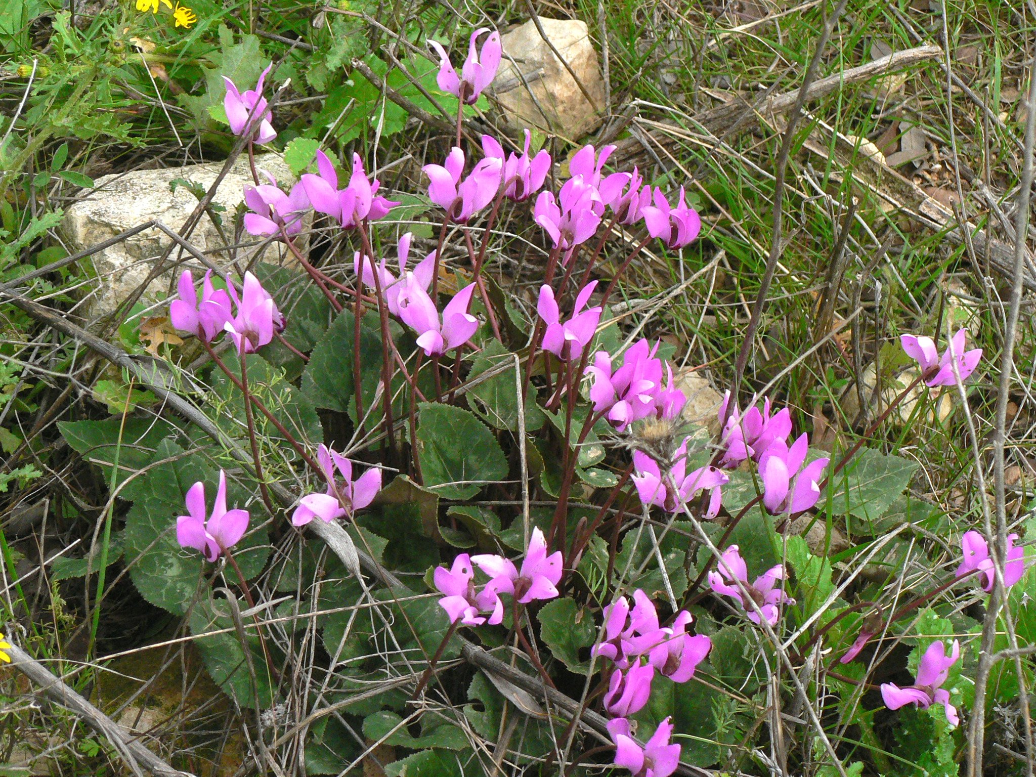 Rakefet רקפת Cyclamen persicum Author: MathKnight